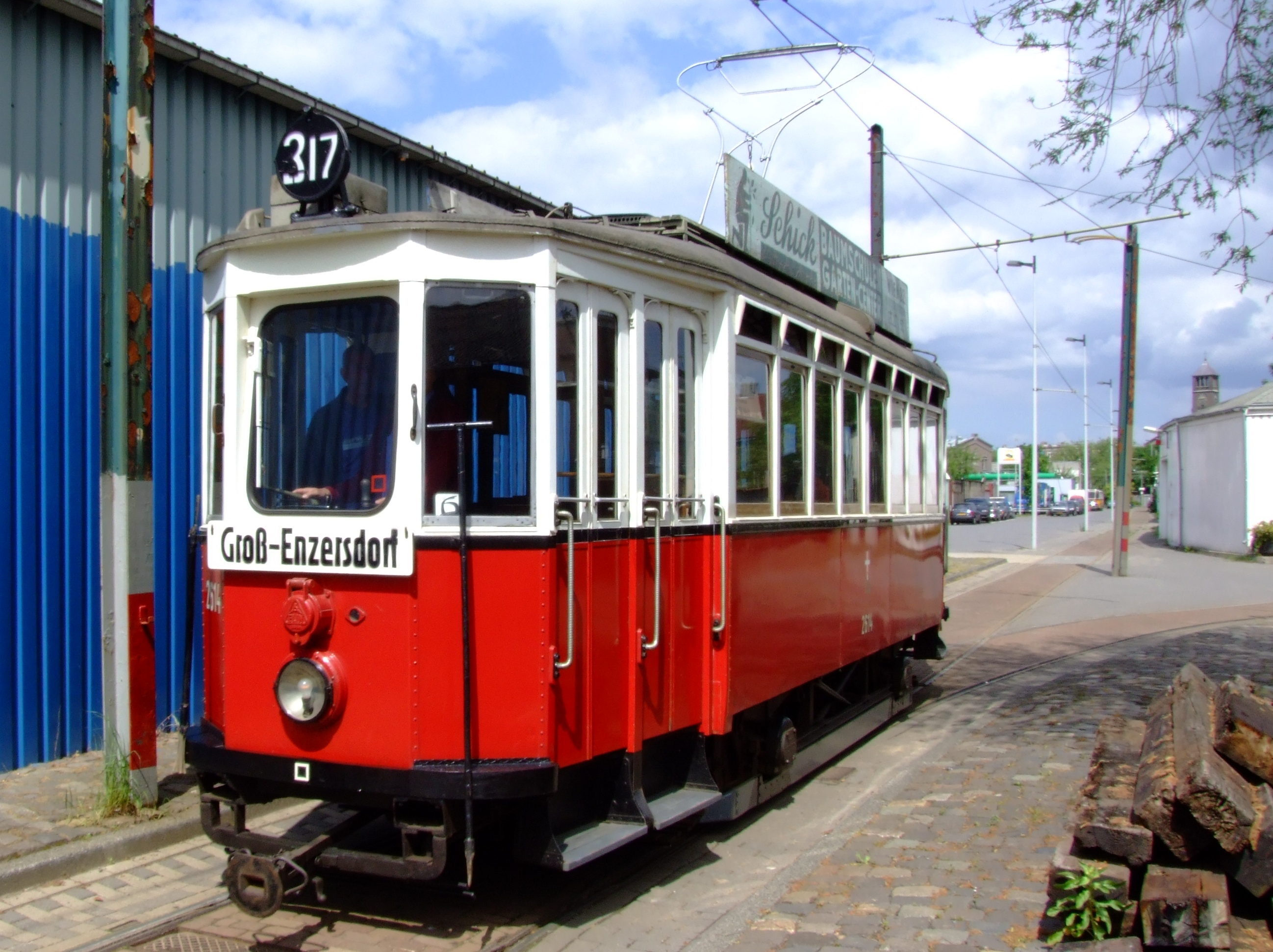 Part of the Electrische Museumtramlijn Amsterdam collection. Museum tram 2614 Gross-Enzersdorf